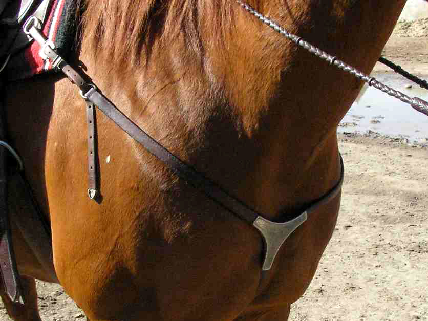 West breast collar